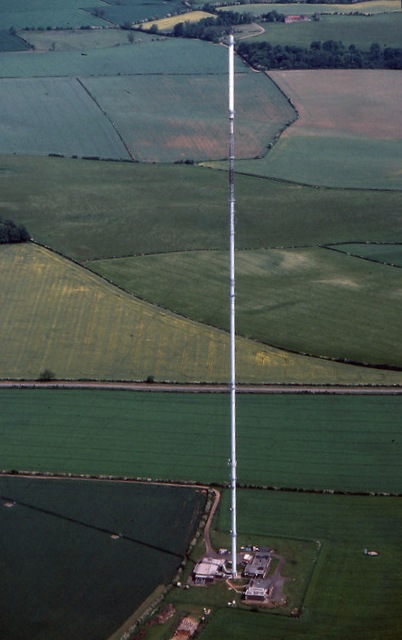 Belmont TV Mast From The Air I can't remember the exact date of this, but 3 of us bought a flight over Lincolnshire in a charity auction, money well spent too.